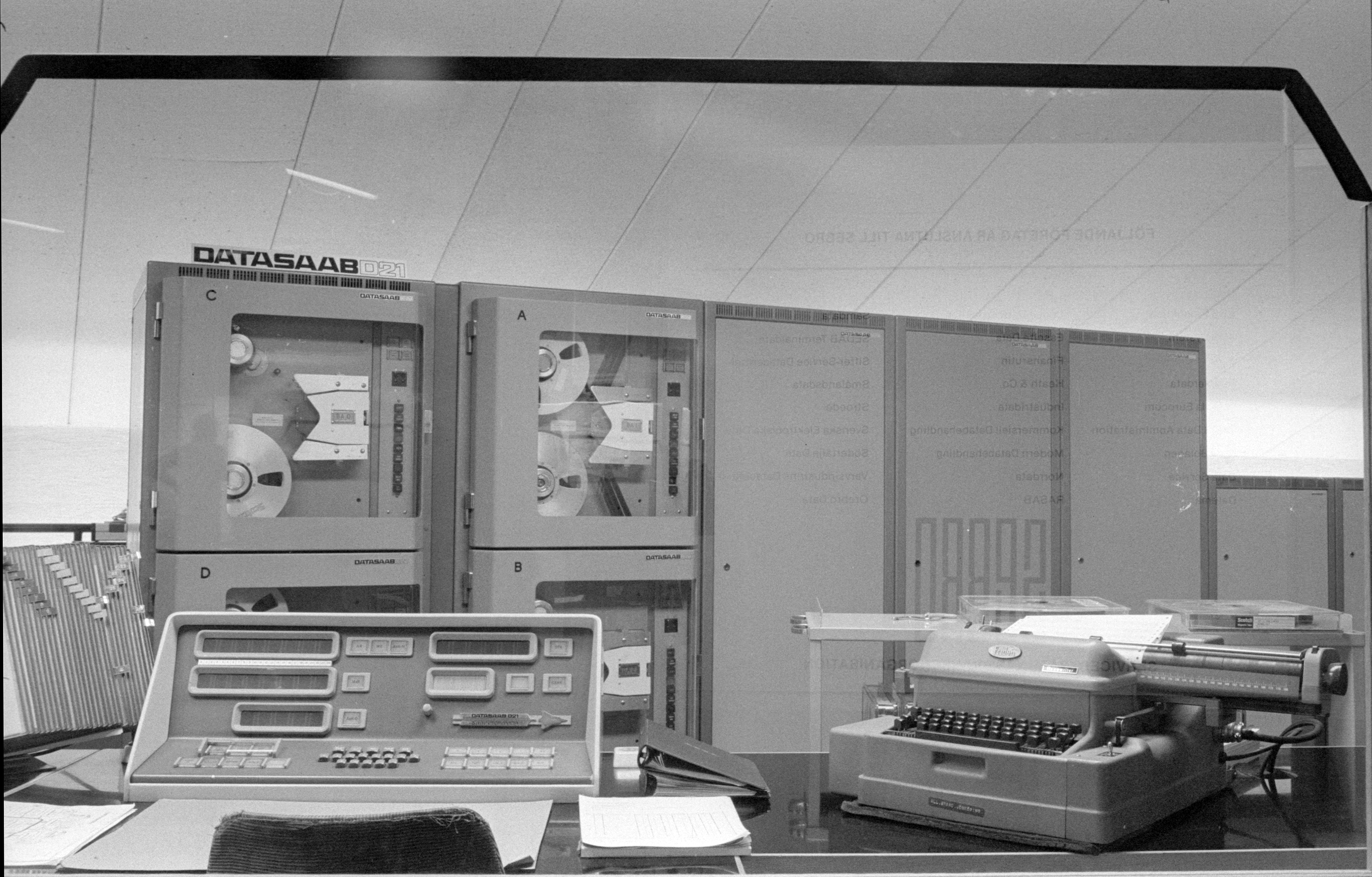 This is a photo of the D-21 computer at Tekniska museet in Stockholm where it was exhibitied in running condition for several years.